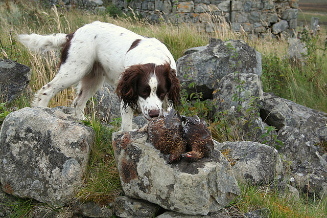 Two grouse "picked" after the previous day's shoot. On the day after a shoot, keepers generally go on a recce over the field to "pick" any birds which may have been wounded or injured on the day.